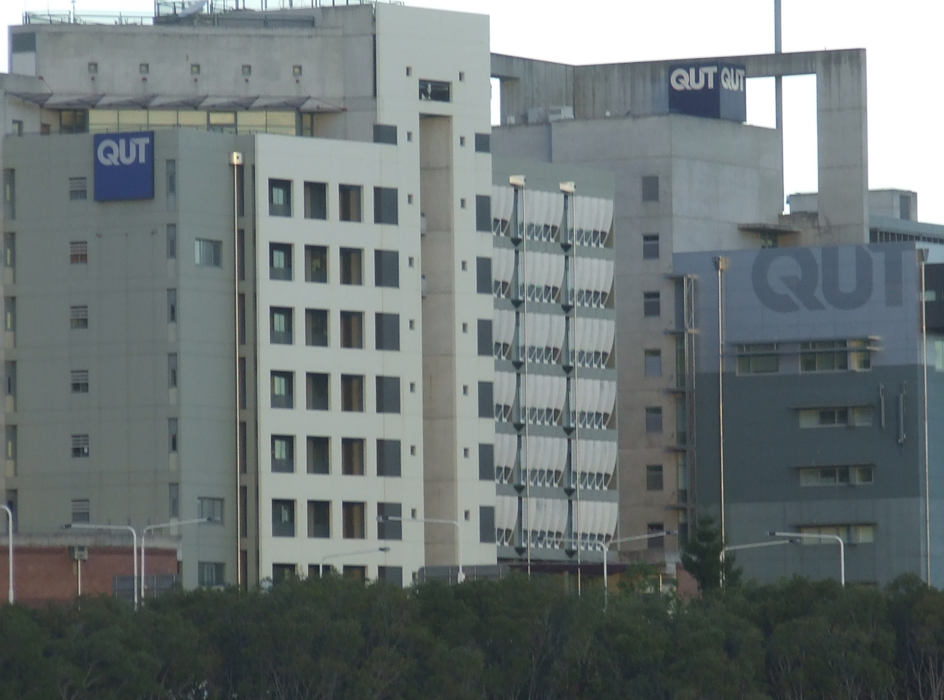 Part of this story at the Brisbane Is Home blog. You are free to use this photo for any reason, including commercial reasons, but you MUST credit with a link if you use the photo on the Internet, or with the URL printed on or next to the photo if not used on the Internet.